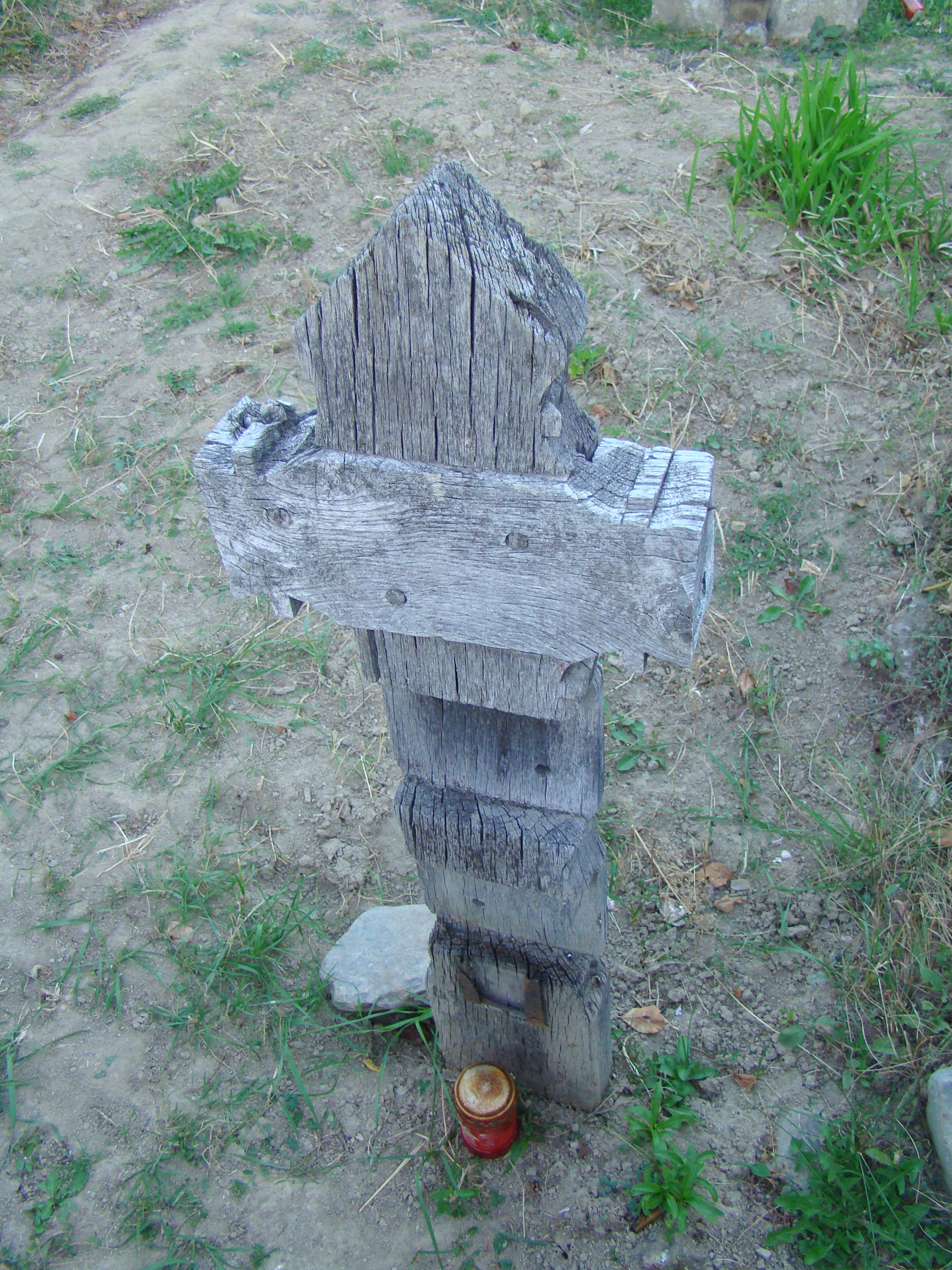 Wooden church in Crasna-Ungureni, Gorj county, Romania